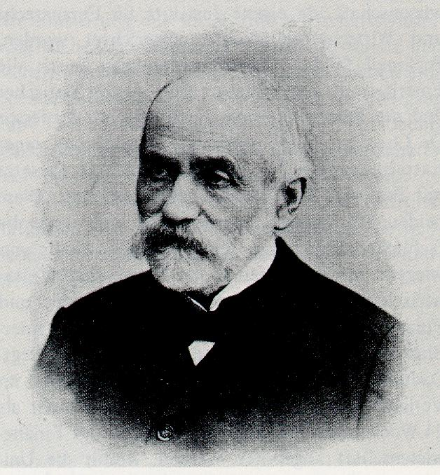 Лудвиг Гумплович